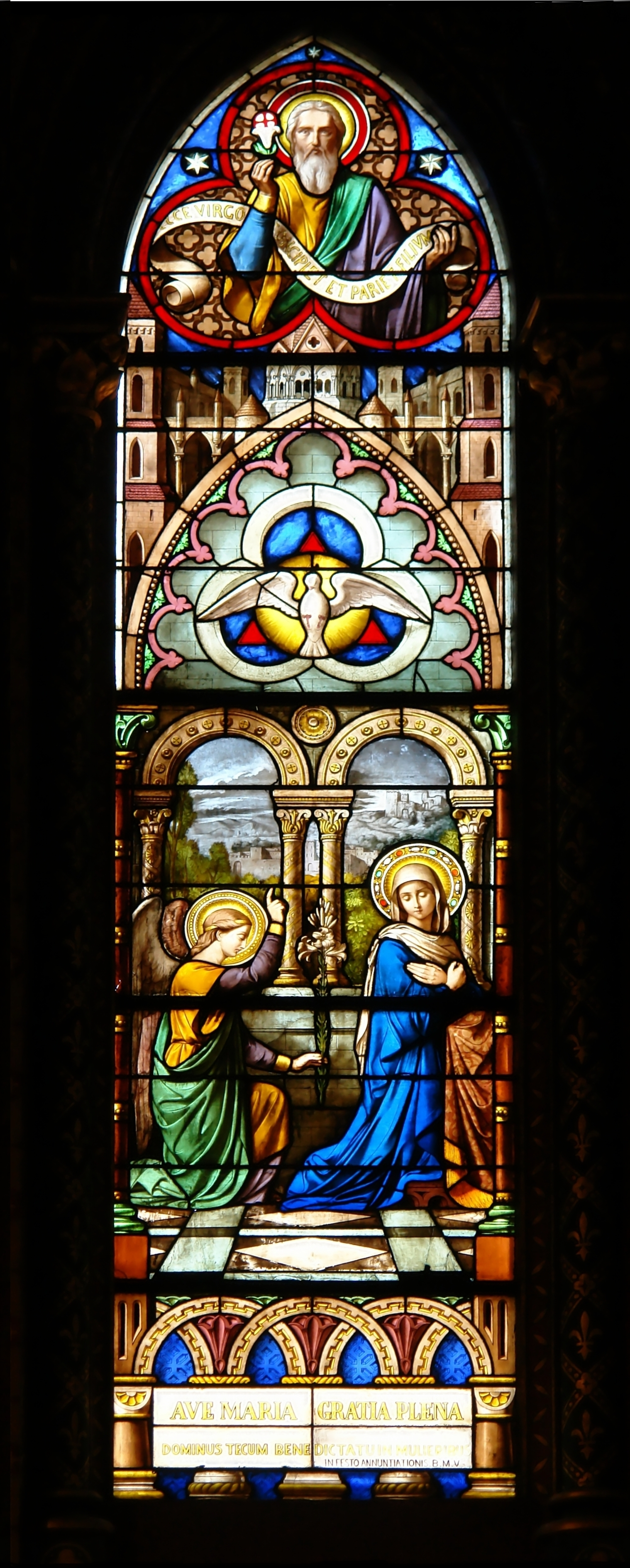 Stained glass windows at Notre-Dame, Geneva, Switzerland. Top: God the Father; middle: Dove of Holy Spirit in trefoil; lower: Annunciation scene.